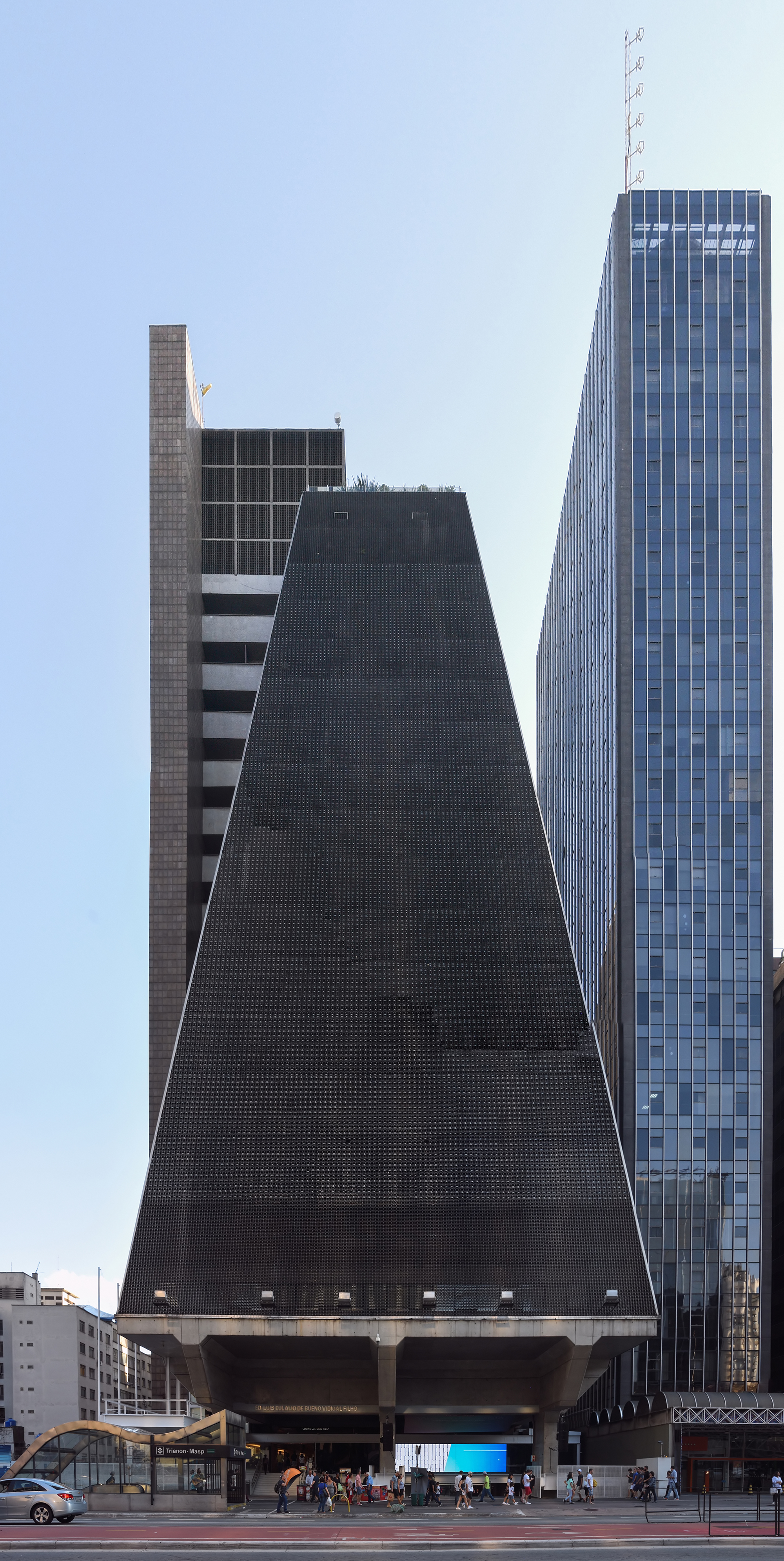 Edifício da FIESP